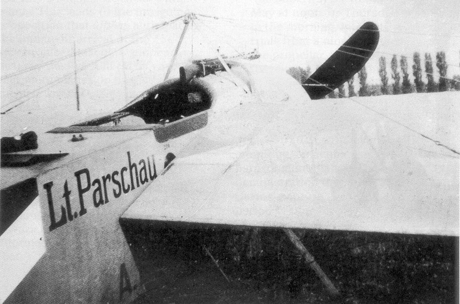 Closeup of Otto Parschau's personal Parabellum MG14-armed Fokker A-series monoplane, early June 1915, and basically the "prototype" aircraft for the armed Fokker E-series Eindecker fighters.